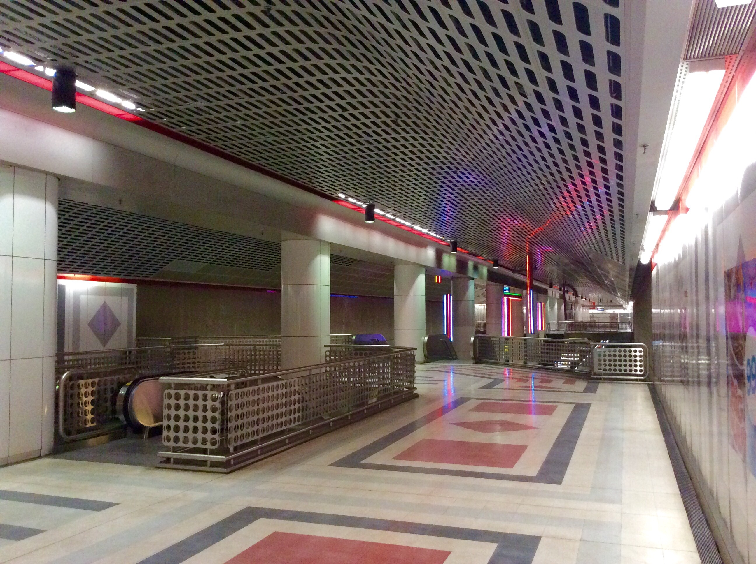 The upper floor view of Pershings Square Station.